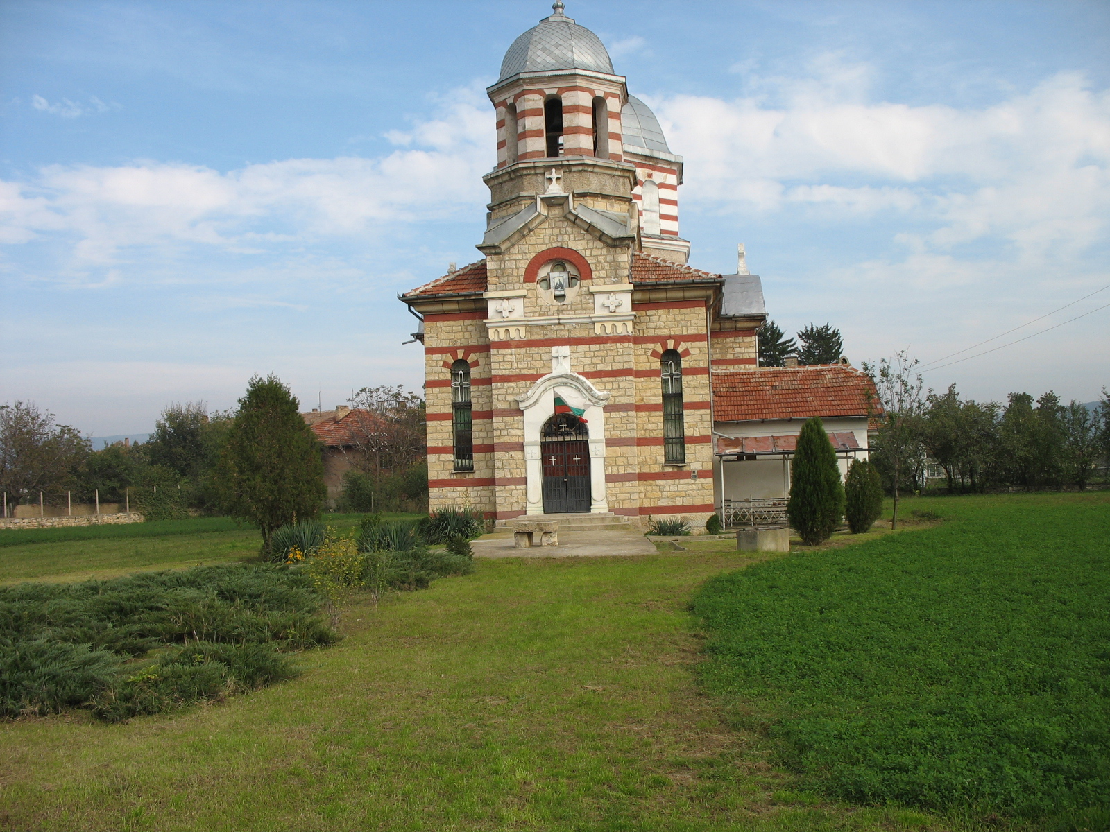 The church of village Petko Karavelovo, Bulgaria